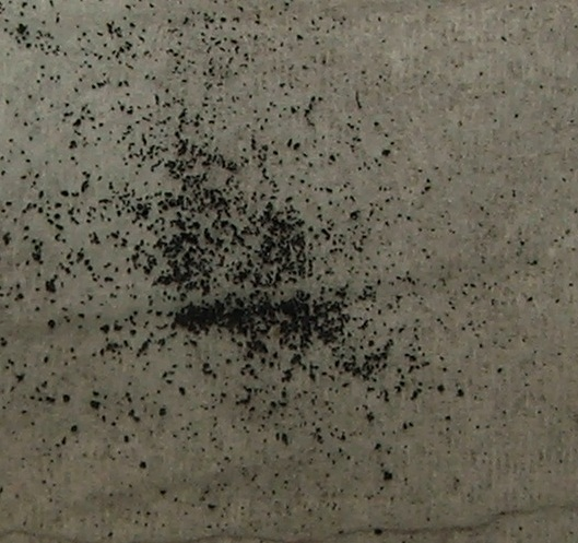 Cobalt(III) oxide (cobaltic oxide) made by drying the precipitate formed when cobalt(II) chloride reacts with sodium hypochlorite solution. It has a dark brown to black coloration.